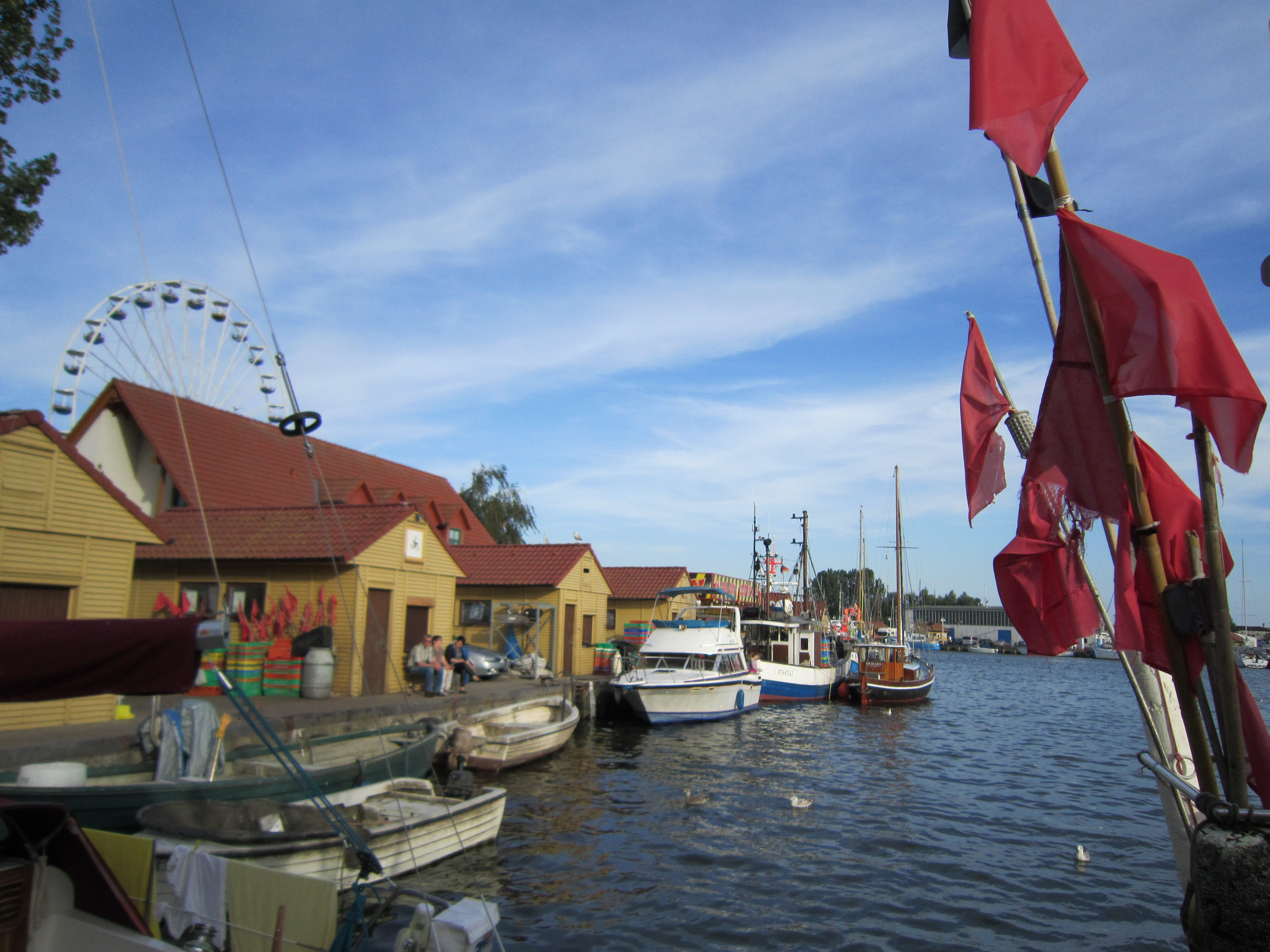 Harbour of Freest (Landkreis Vorpommern-Greifswald)